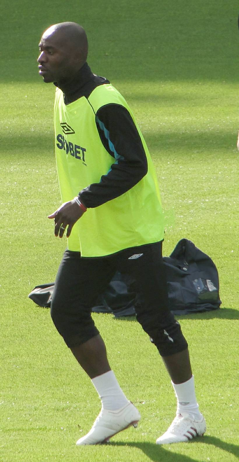 West Ham's Herita Ilunga warming-up before a game against Fulham October 2009